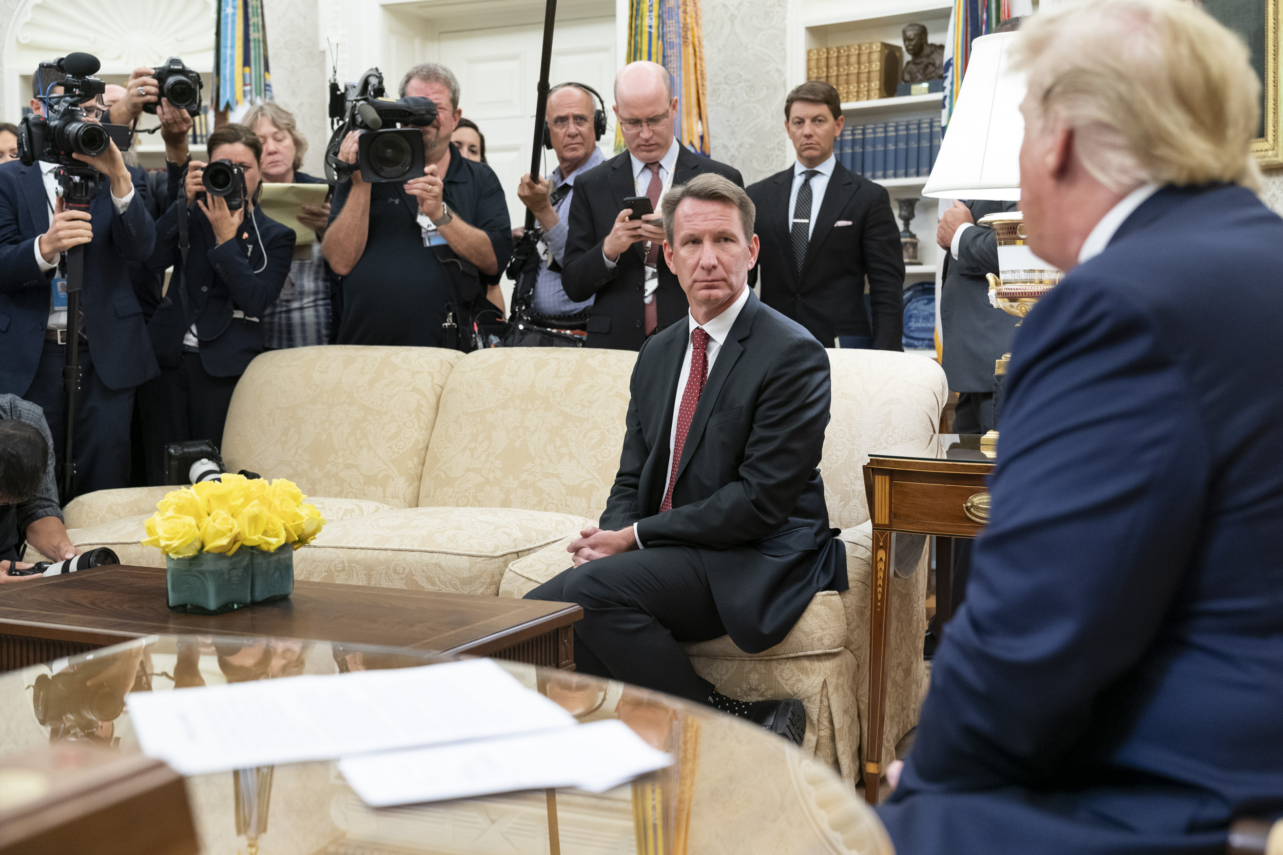 President Donald J. Trump, joined by Acting Food and Drug Administration Commissioner Norman Sharpless and Health and Human Services Secretary Alex Azar, announces a plan to remove all flavored e-cigarette products from the market as quickly as possible Wednesday, Sept. 11, 2019, in the Oval Office of the White House. (Official White House Photo by Andrea Hanks)